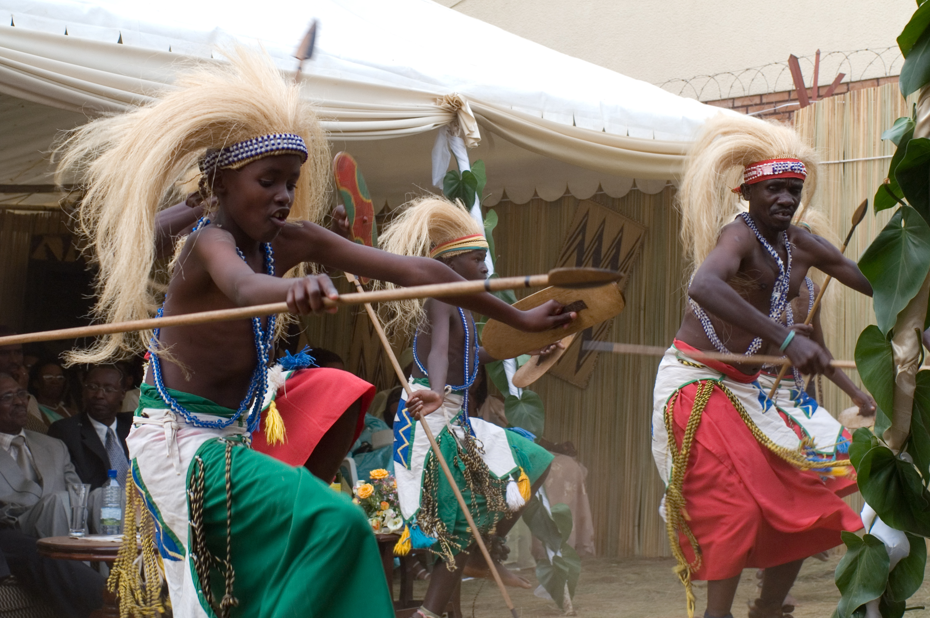 Intore (Rwandan warriors)